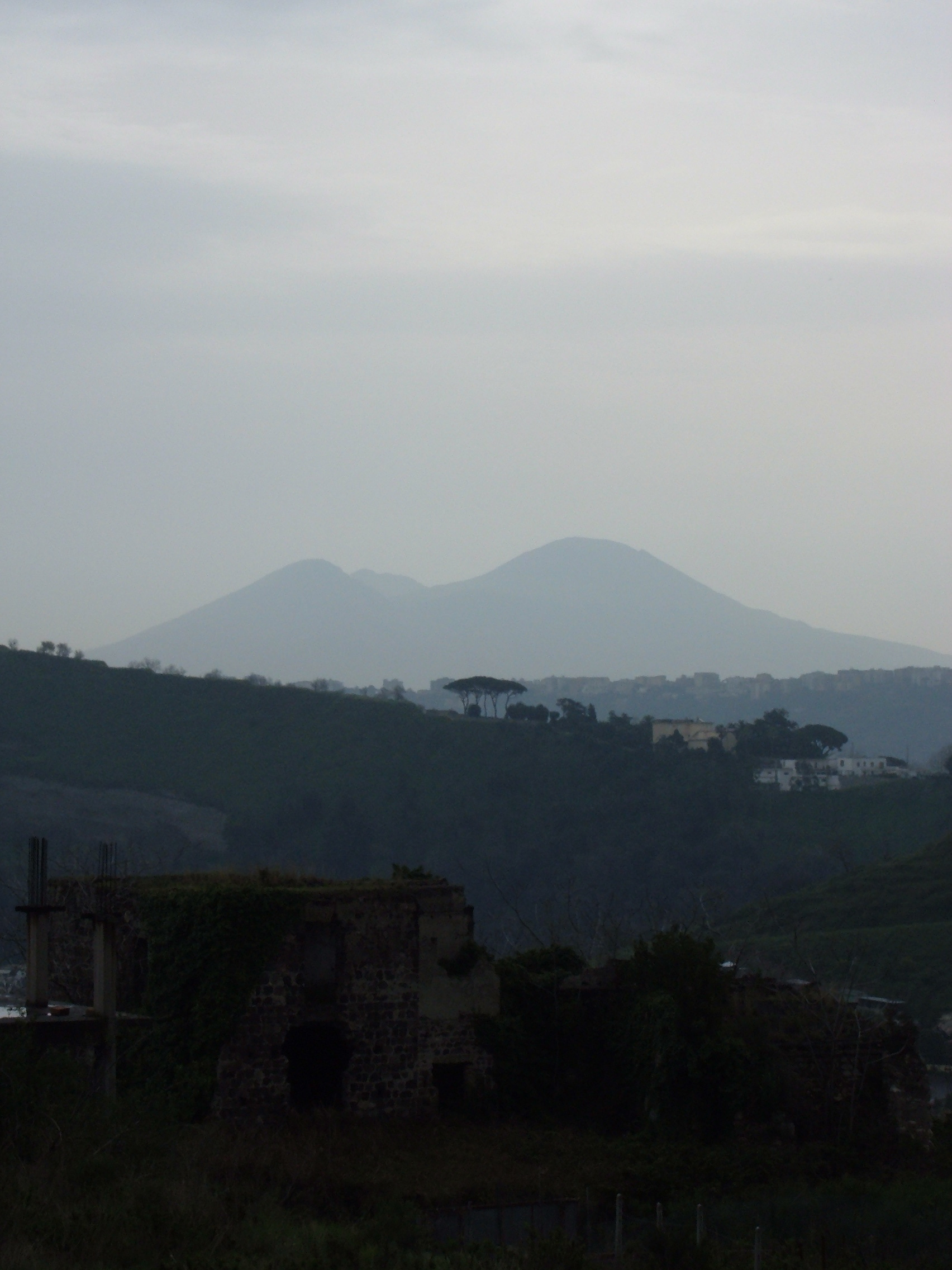 View over the Campi Flegrei: in the foreground is the hill of the crater of Agnano, in the background is visible the hill of Posillipo and behind the Mount Vesuvius.